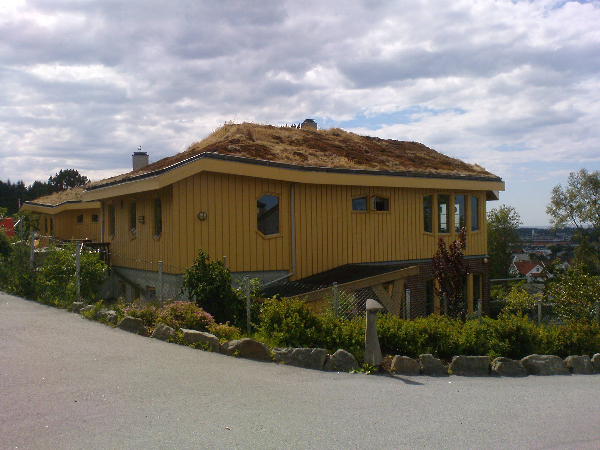 The kindergarten "Soria Moria" at "Steinerskolen i Haugesund"